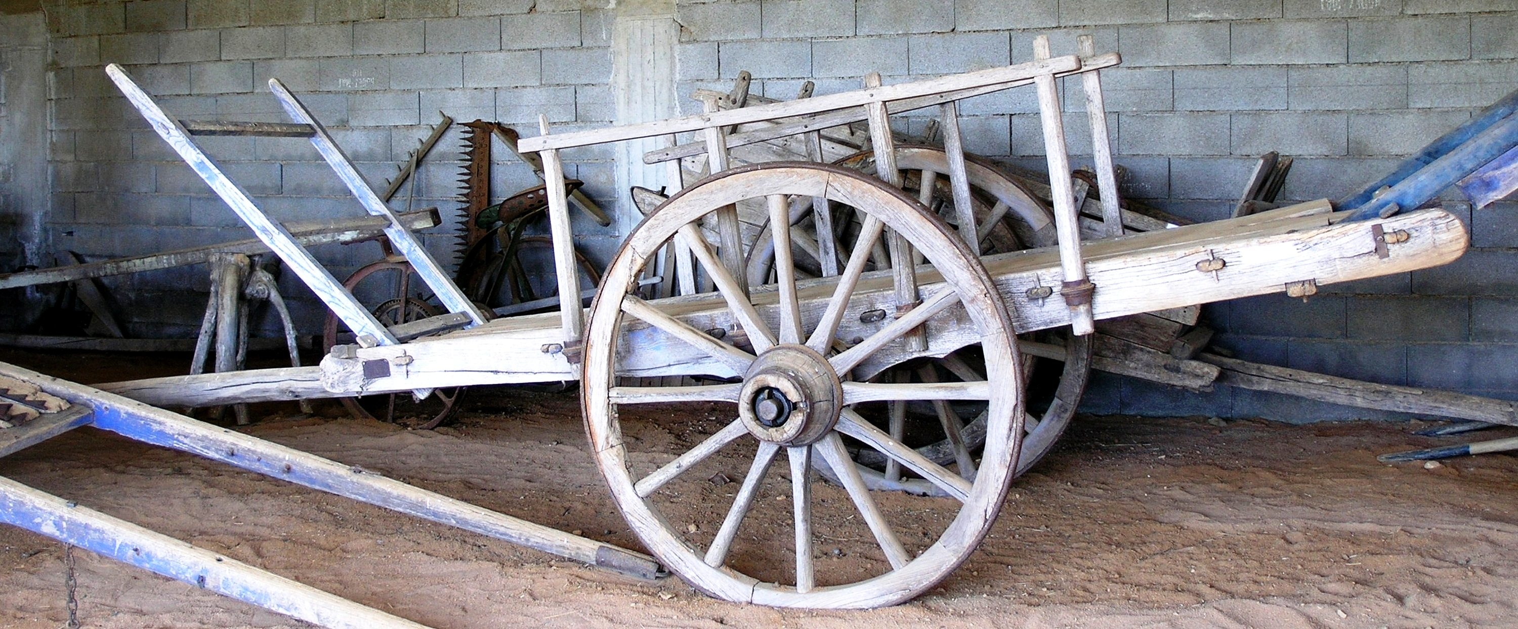 Cart horse Cévennes France